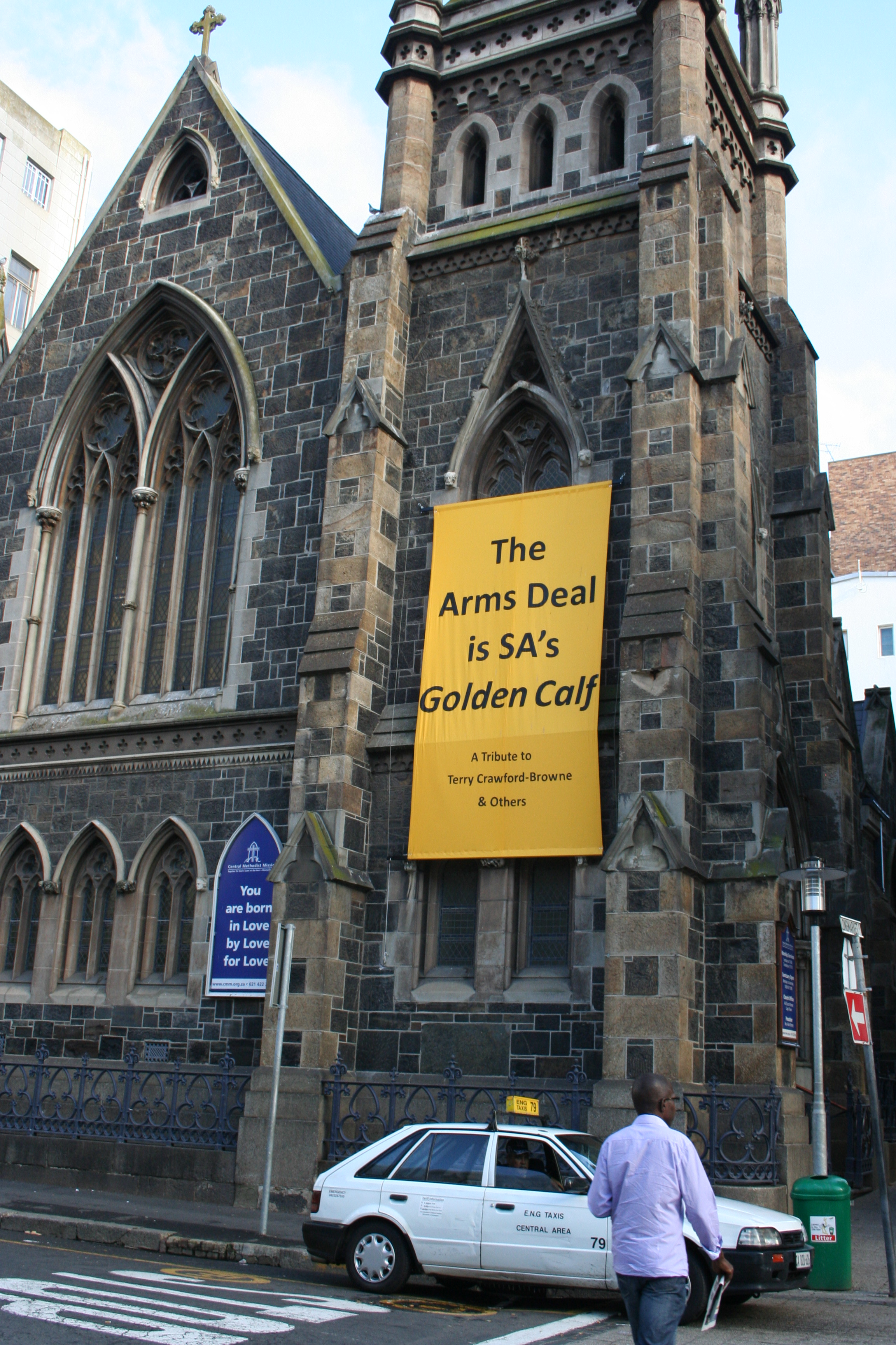 A banner on the Central Methodist Mission church in Green Market Square, Cape Town criticising the South African Arms Deal.